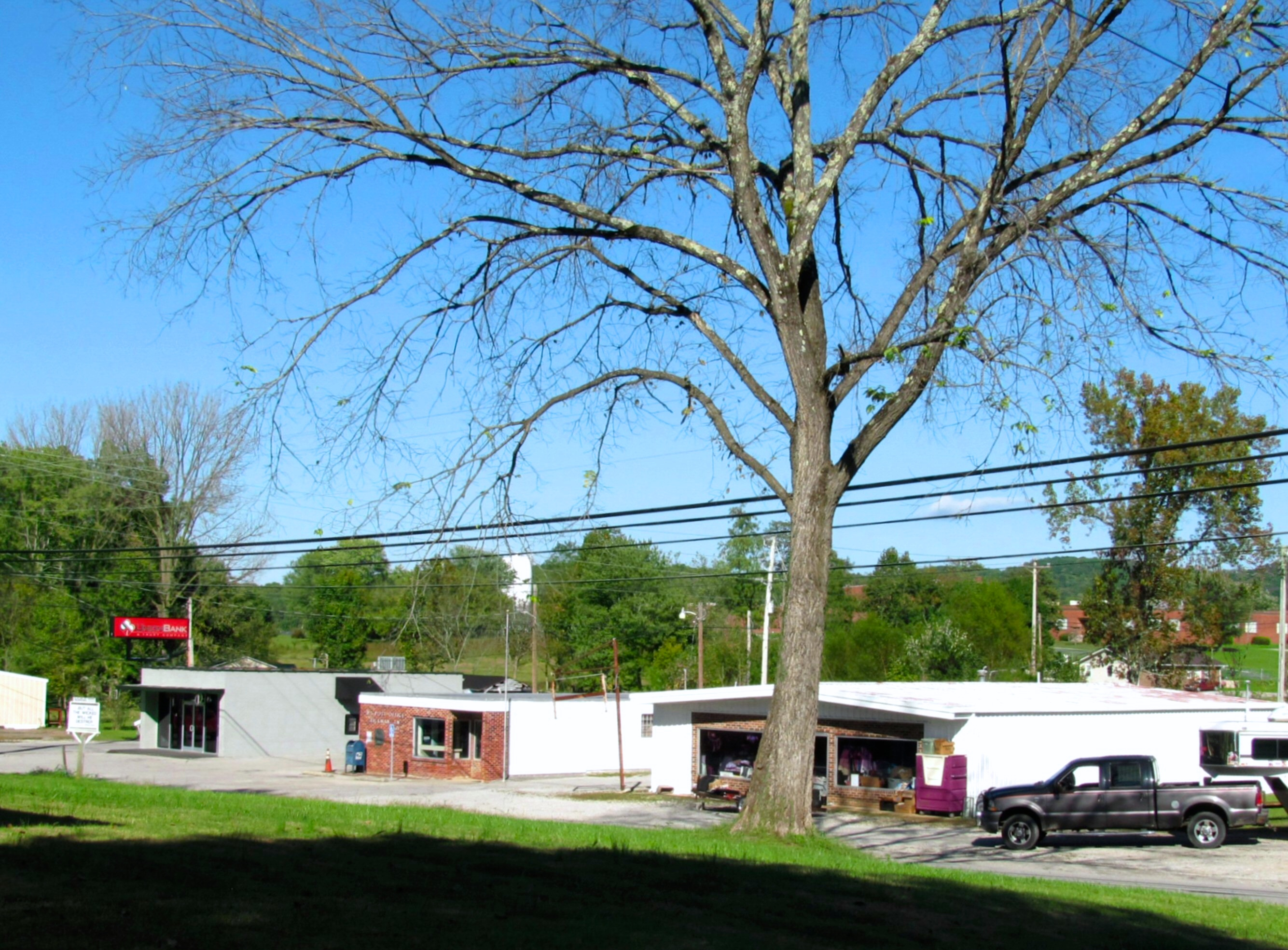 Post office and business along Rickman Road (Tennessee State Route 42) in the Rickman community of Overton County, Tennessee, United States.